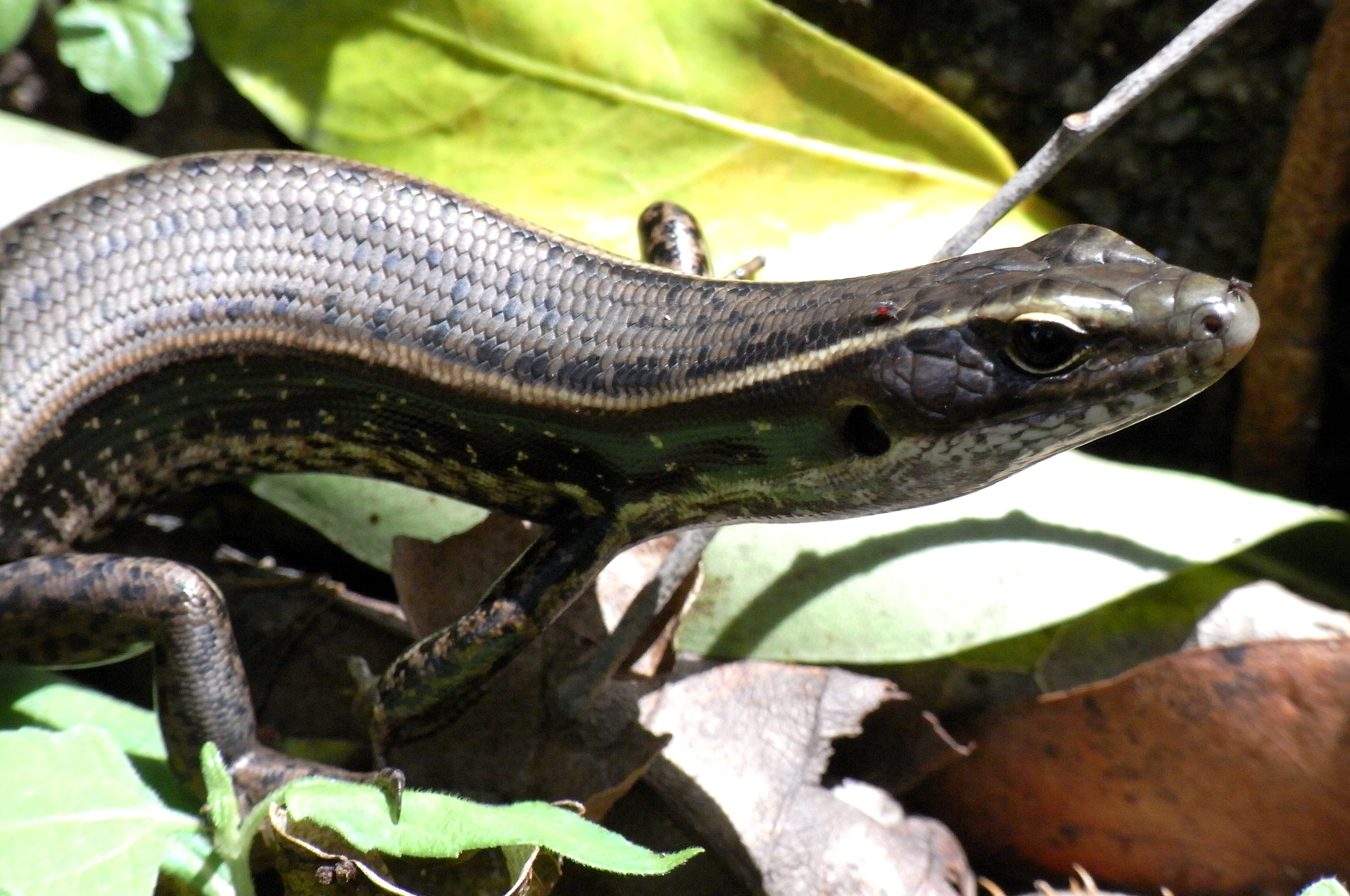 Golden Water Skink (Eulamprus quoyii) with two small flies resting on its head near Coombadhja Creek, Washpool National Park, Australia.